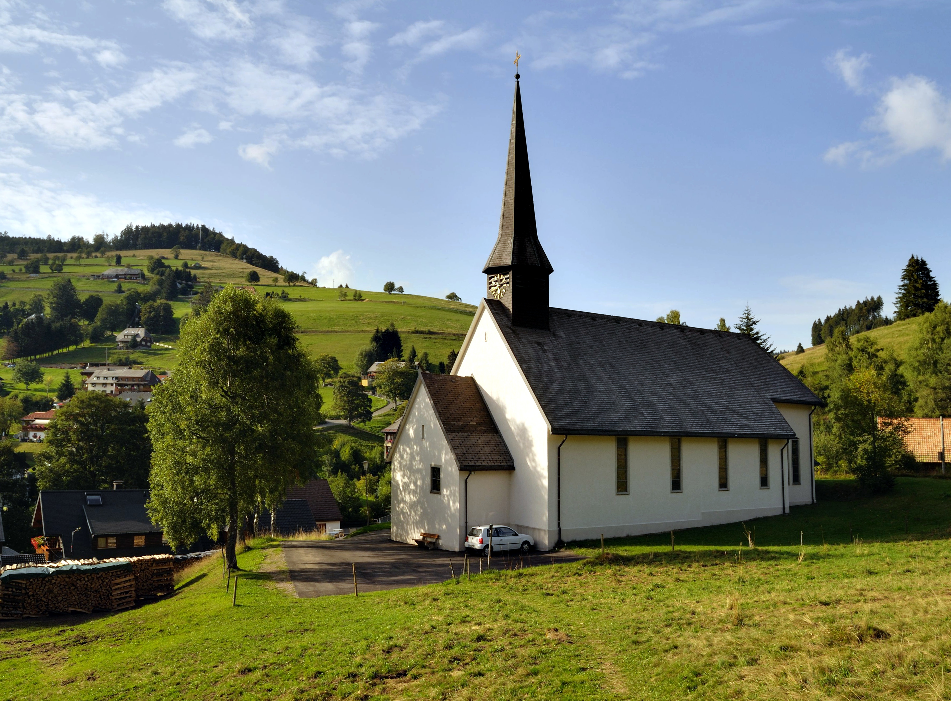 Muggenbrunn: Saint Cornelius Church